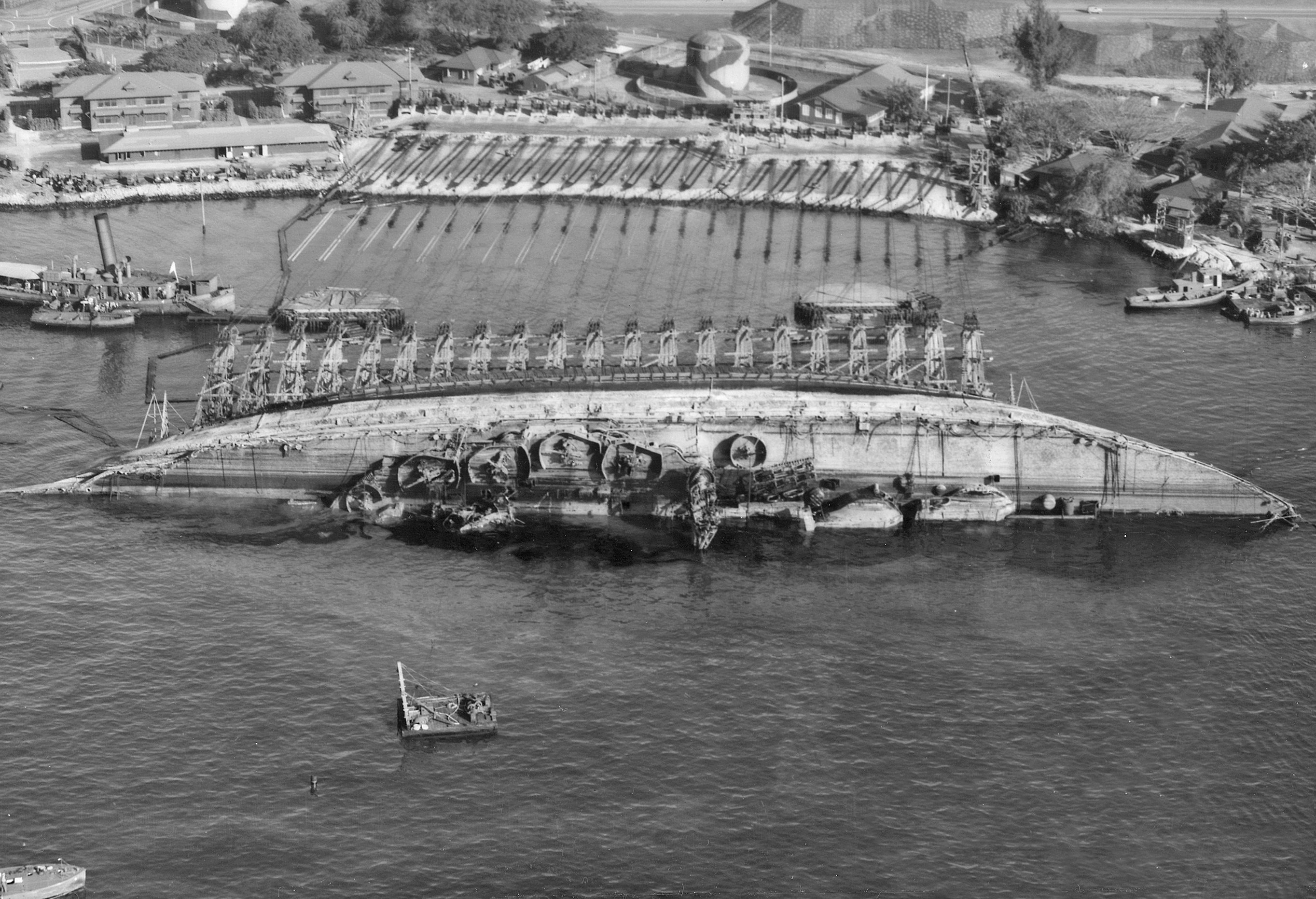 Scope and content: This is one of a collection of photographs of salvage operations at Pearl Harbor Naval Shipyard taken by the shipyard during the period following the Japanese attack on Pearl Harbor which initiated US participation in World War II. The photographs are found in a number of files in several shipyard records series.